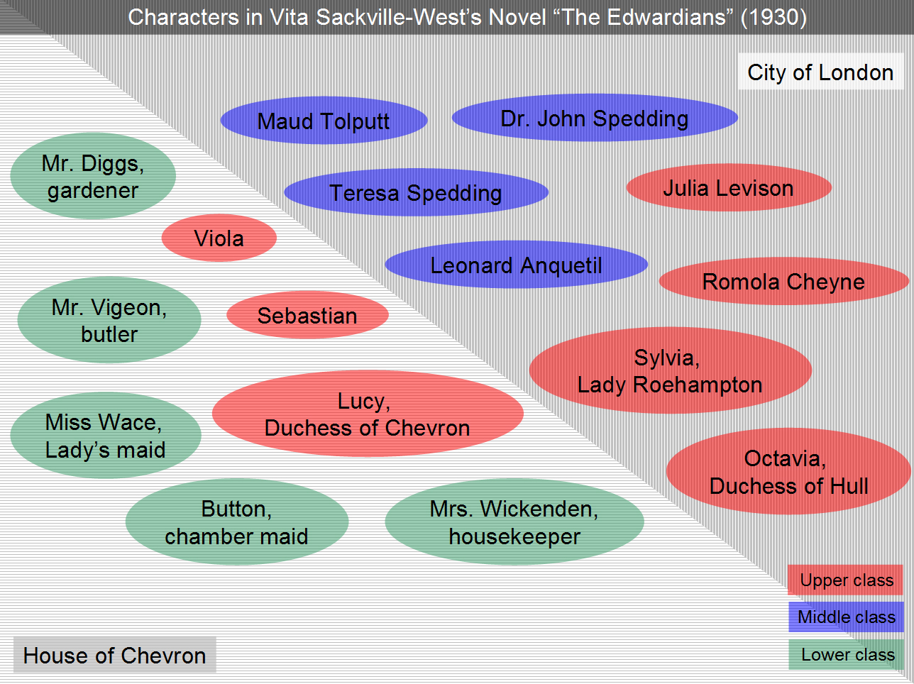 This sketch groups the characters of Vita Sackville-West's novel "The Edwardians" (1930) according to their location and class.